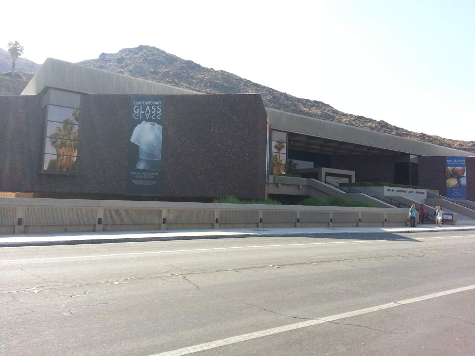 Palm Springs Art Museum